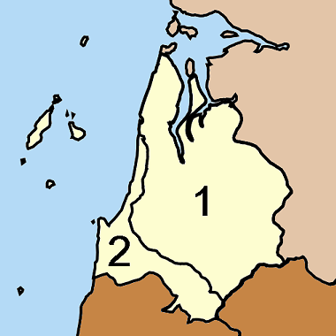 Map of Suk Samran minor district, Ranong province, Thailand, with the communes (tambon) numbered. Nakha (นาคา) Kam Phuan (กำพวน)